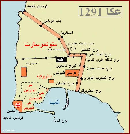 Map of Acre, 1291